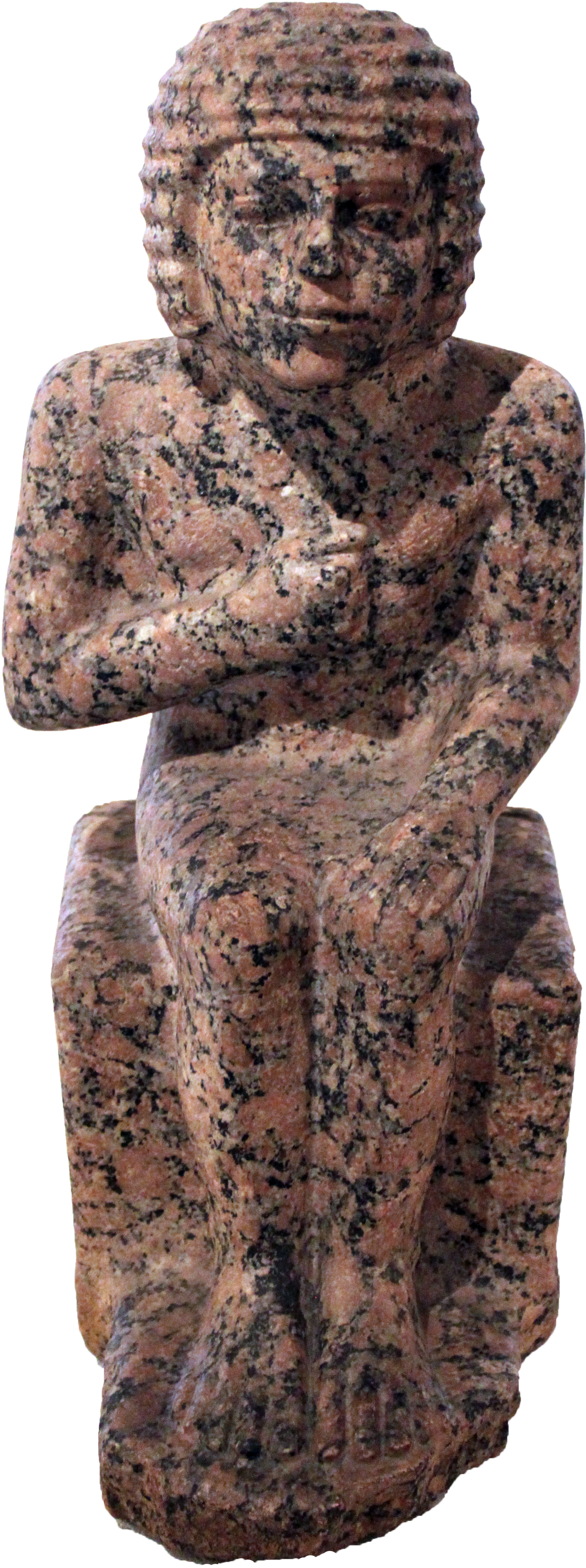 Seated figure of the district governor Methen; 4th dynasty (2639–2504 BC); Neues Museum Berlin, Germany; ÄM 1106